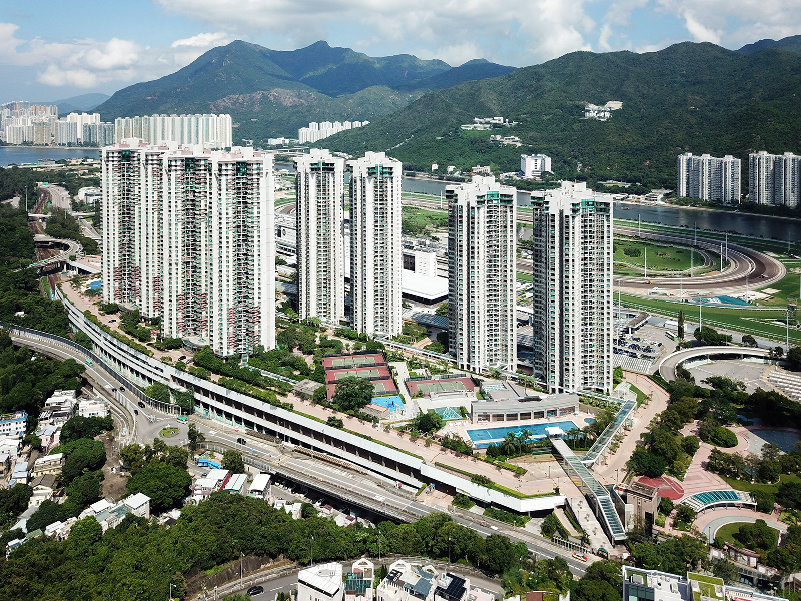 Royal Ascot